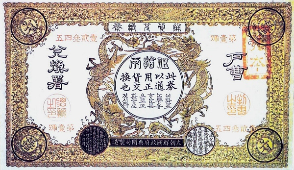 An unissued specimen banknote of the Kingdom of Joseon denominated in "Yang" (兩).